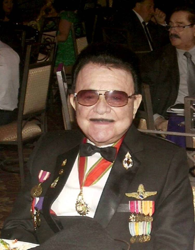 American-Armenian Professor of Civil and Petroleum Engineering at the University of Southern California